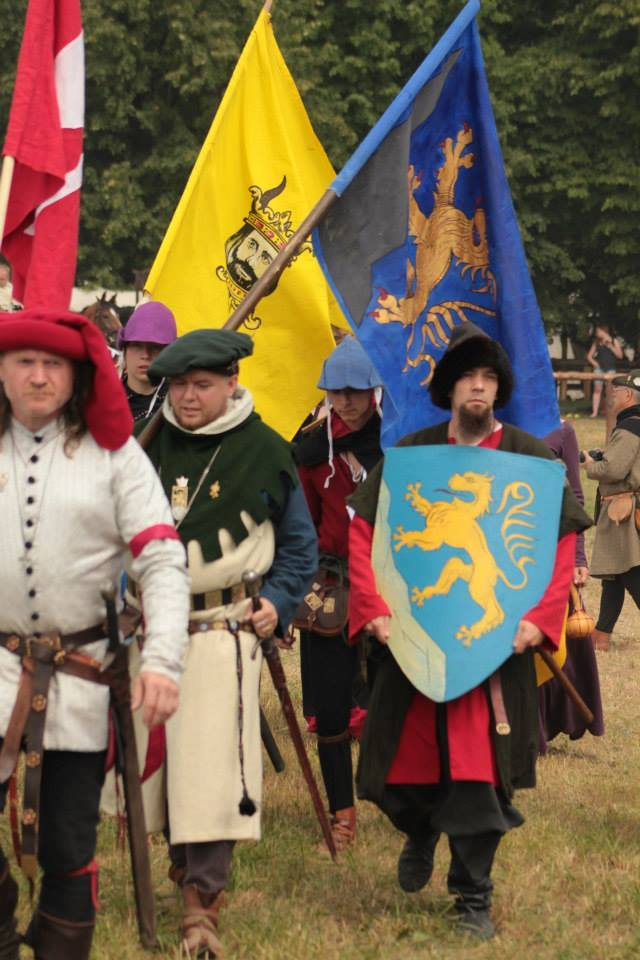 Львівська Хоругва на Грюнвальді